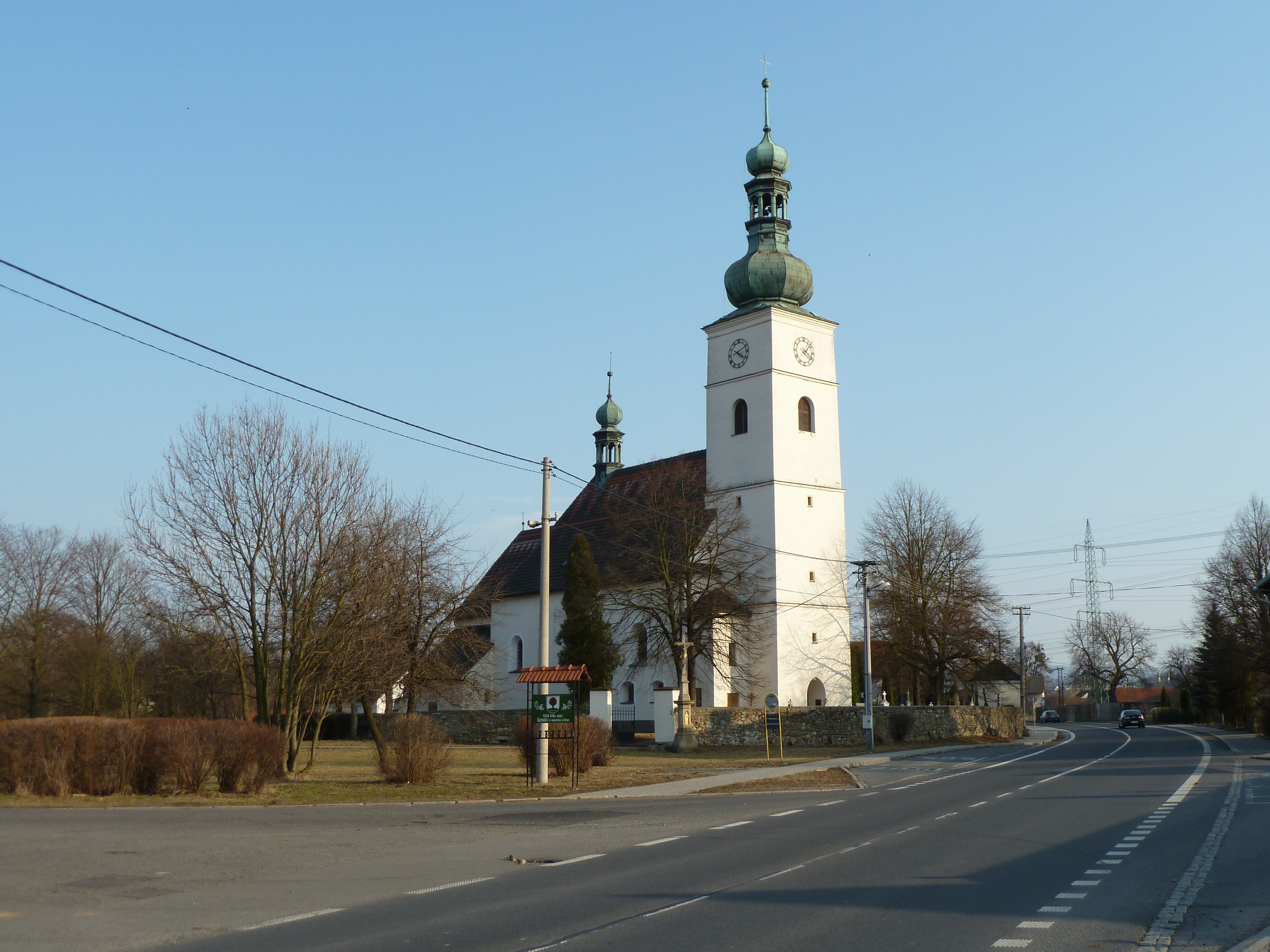 Church of saint Martin in village Šenov u Nového Jičína (Nový Jičín district, north-eastern Moravia, Czech Republic)